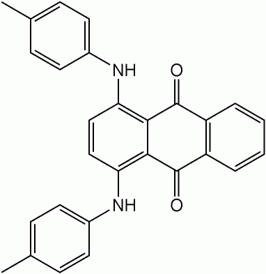 Chemical structure of Quinizarine Green SS Author, date of creation: selfmade by Shaddack, 1 December 2005 Source: self-made Copyright: Public Domain (PD) Comments: b/w hires PNG; ChemDraw